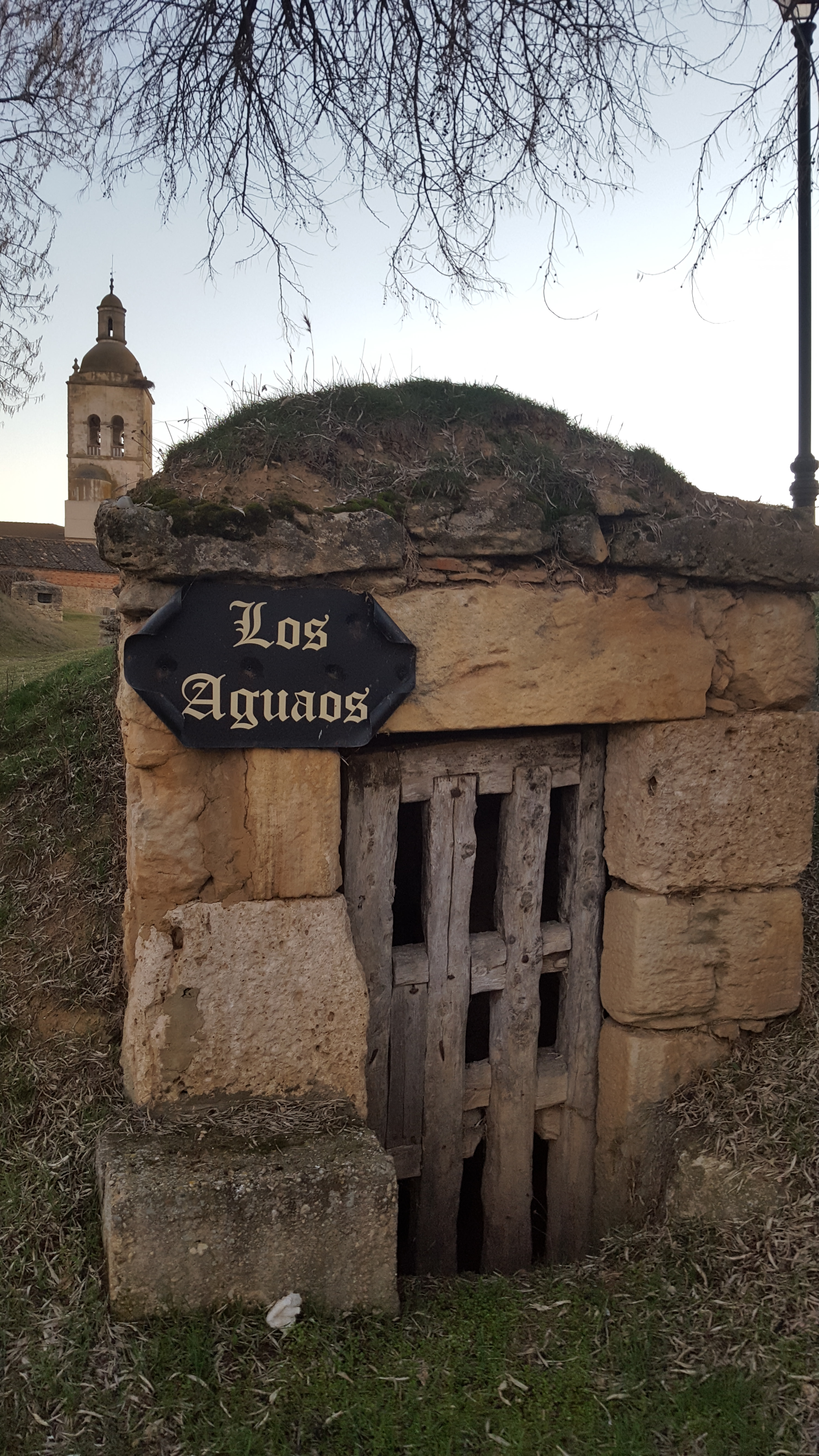 Primer plano de bodega tradicional